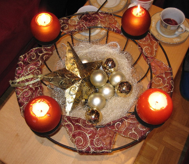 Traditional Austrian Advent bowl